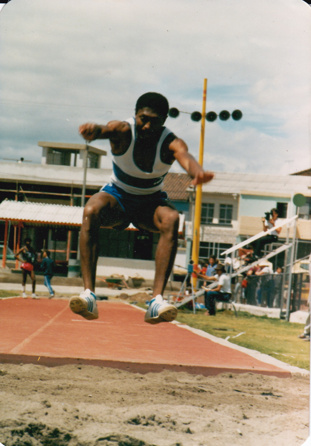 National Championships Equador, High School, 1983